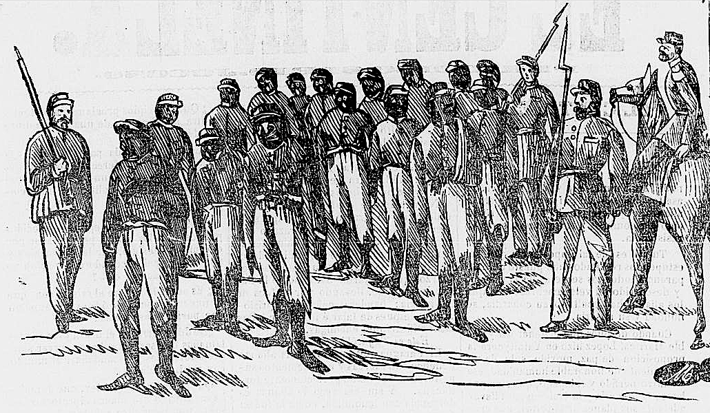 Racist cartoon in Paraguayan army newspaper. Allied prisoners, depicted as black.